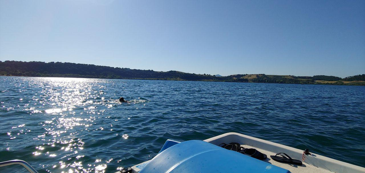 Picture taken on 2019-06-30 from a boat in lake of Martignana, lazio